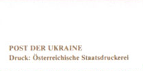 Stamps of Ukraine, 1992